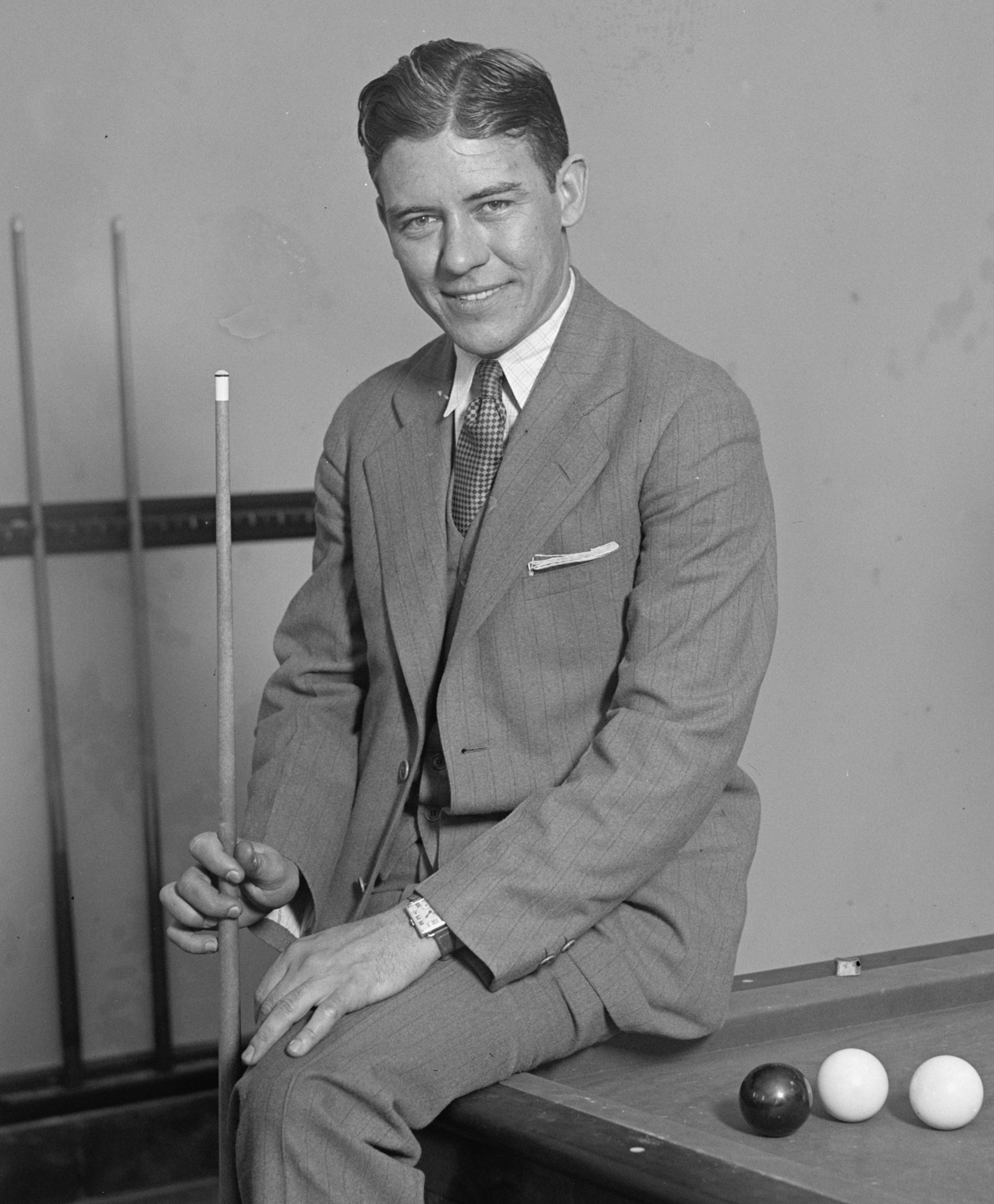 Carom billiards player Welker Cochran sitting on a carom table.